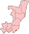 Map of the Republic of the Congo showing Brazzaville commune.